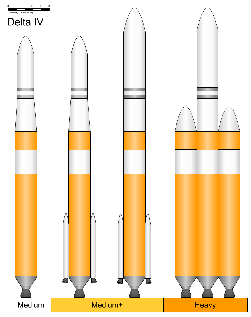 Delta IV family